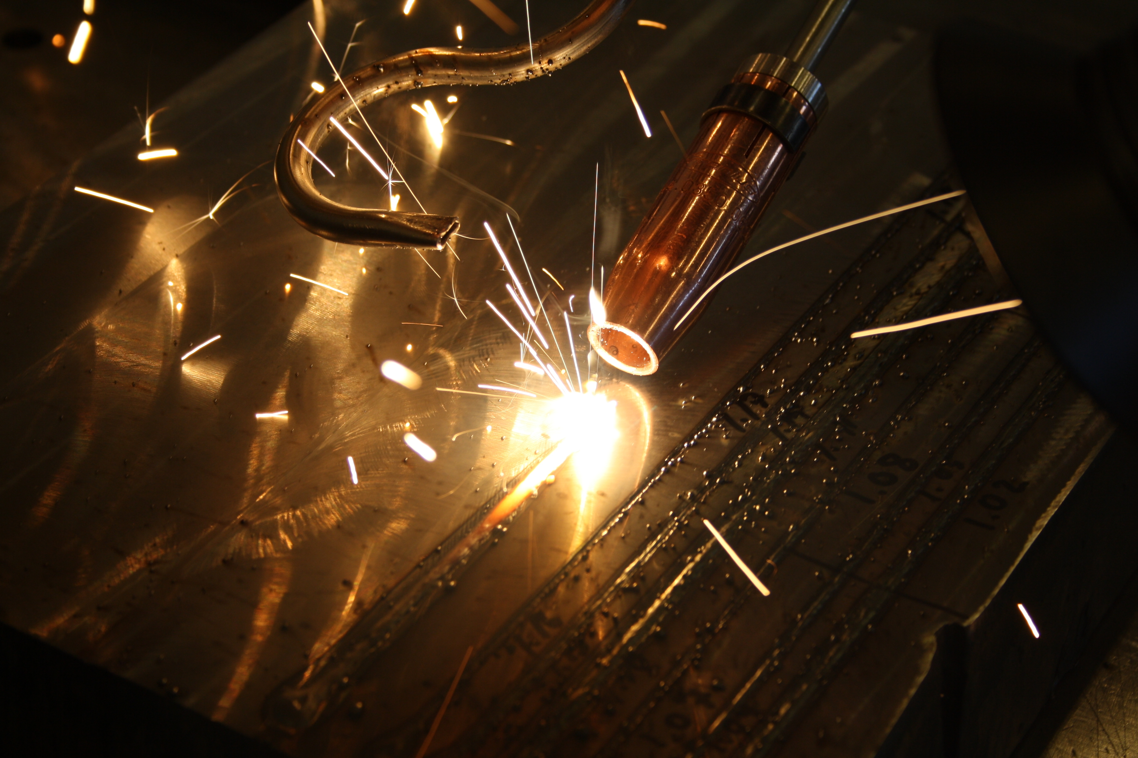 A laser welding test at LWT (Lindoe Welding Technology). The 32 kW laser system is in this test limited to 12 kW. The invisible laser beam is coming directly from above. Inert gas from the big nozzle flows around the weld bead and compressed air from the small nozzle removes fumes.